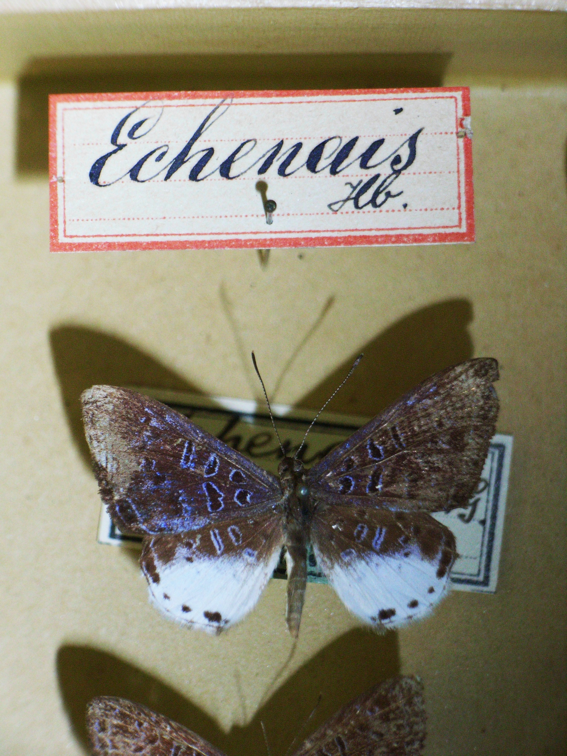 Echenais Hübner, [1819] Riodinidae Ex coll. Museum Wiesbaden